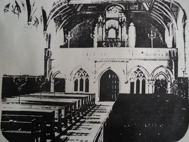 Church - West End – PIPE ORGAN: in centre of organ/choir gallery